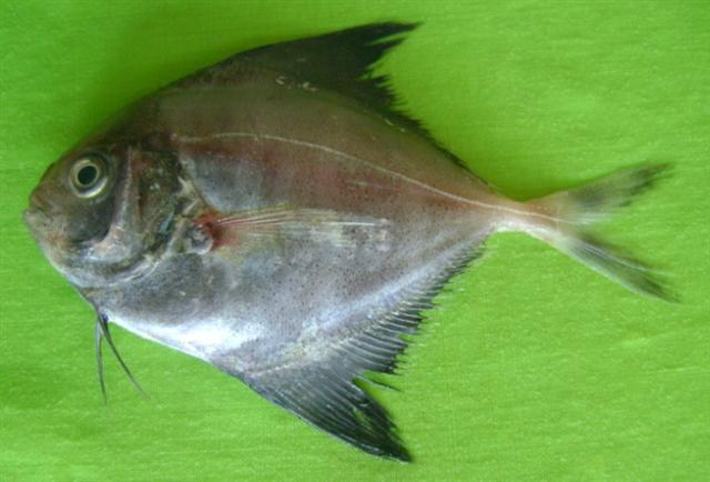 Juvenile Parastromateus niger collected in Pakistan. Juveniles of this species have pelvic fins unlike the adult stage.